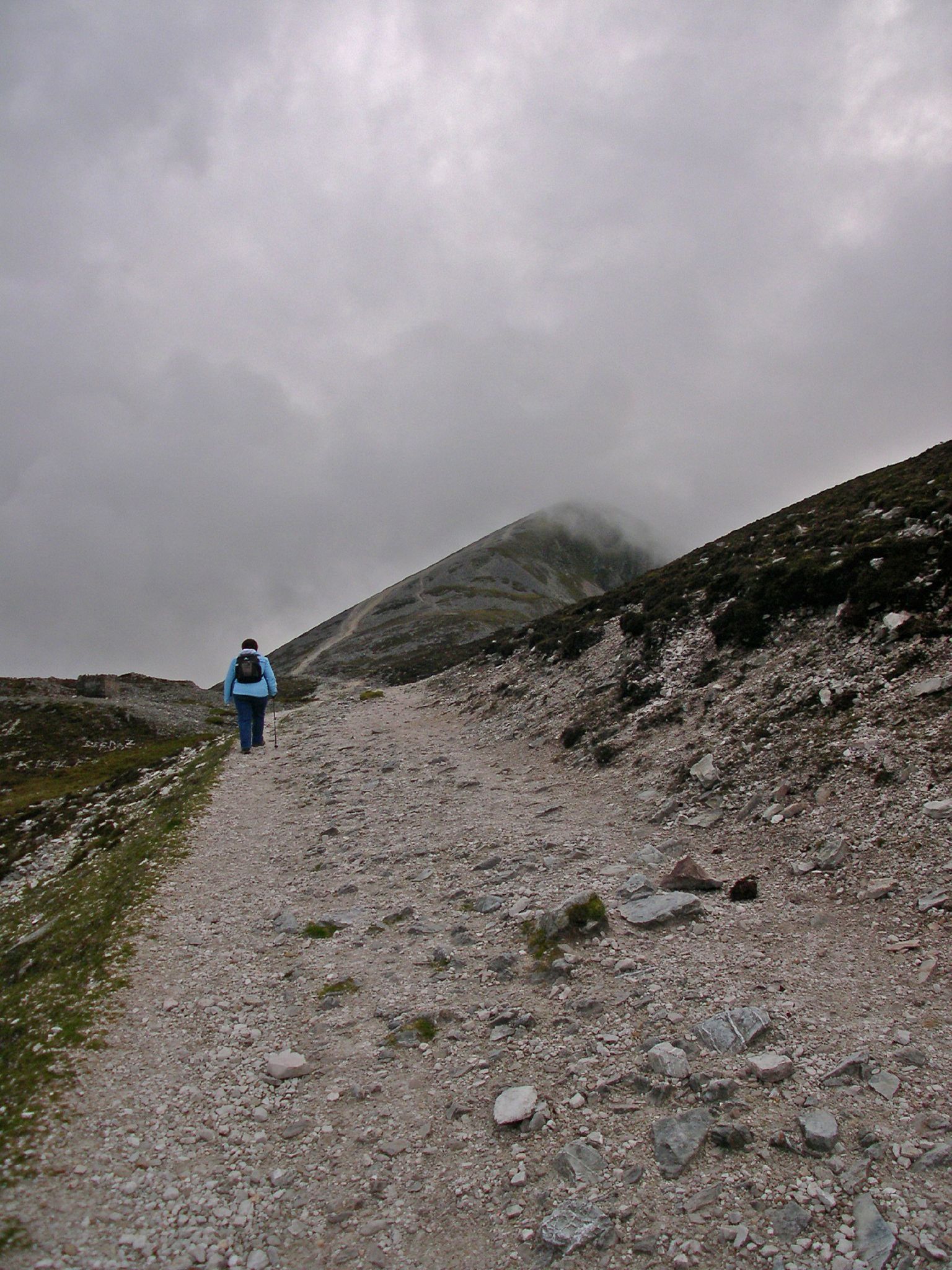 Murrisk, Co. Mayo, Ireland Pilgrimage path of Croagh PatrickCarra Climbing Croagh Patrick